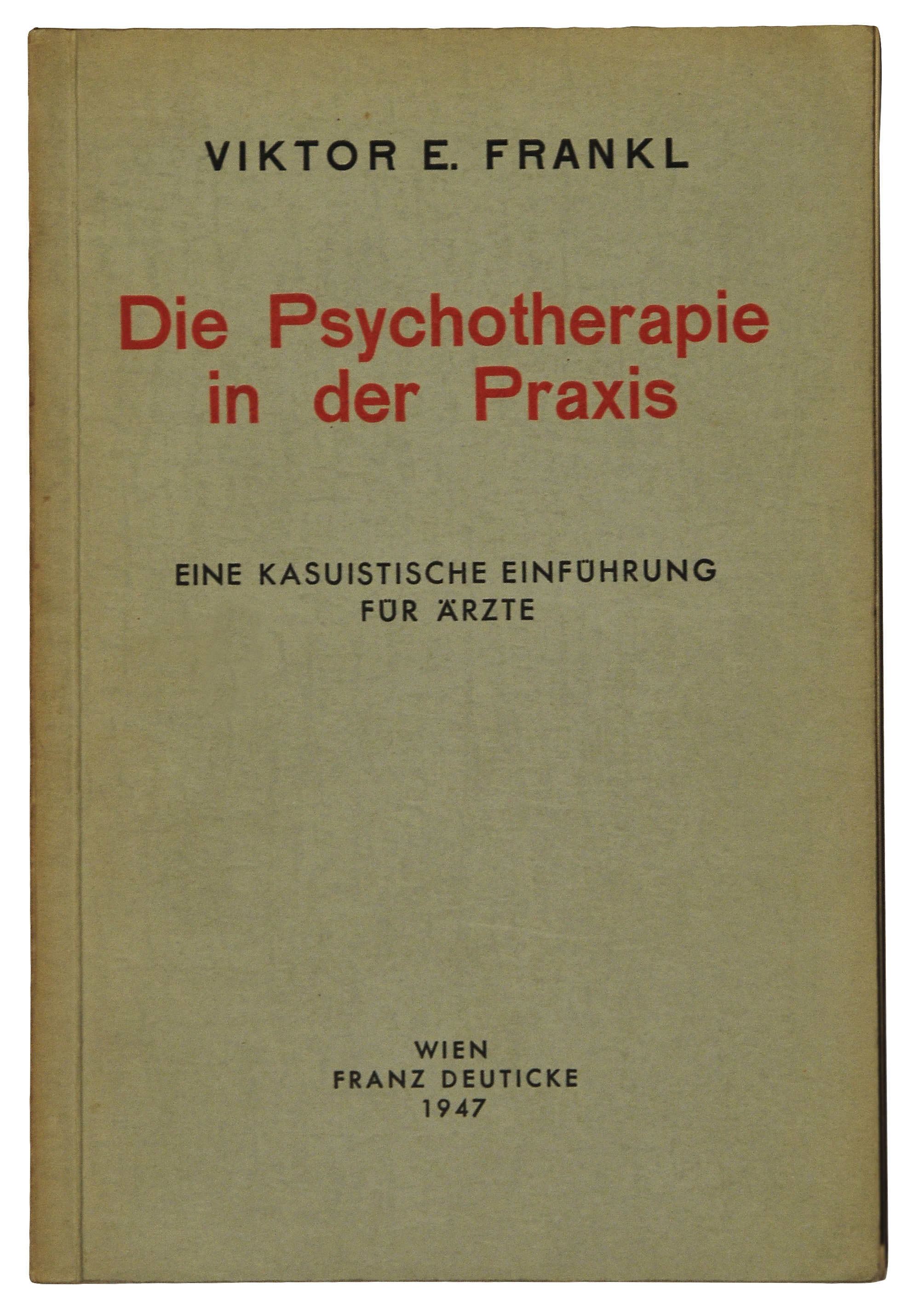 Viktor Frankl: Psychotherapy (1947)